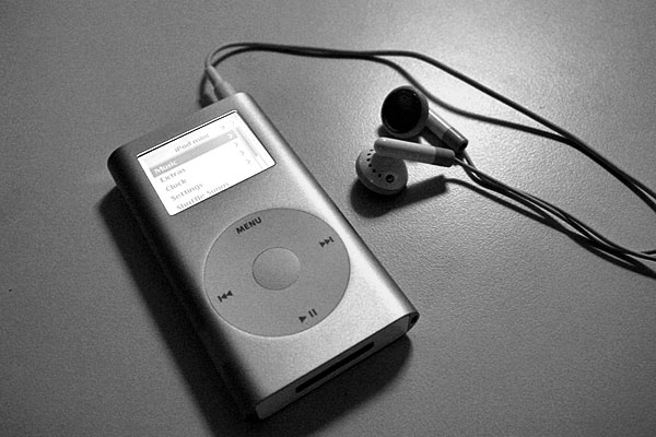 iPod Mini with headphones